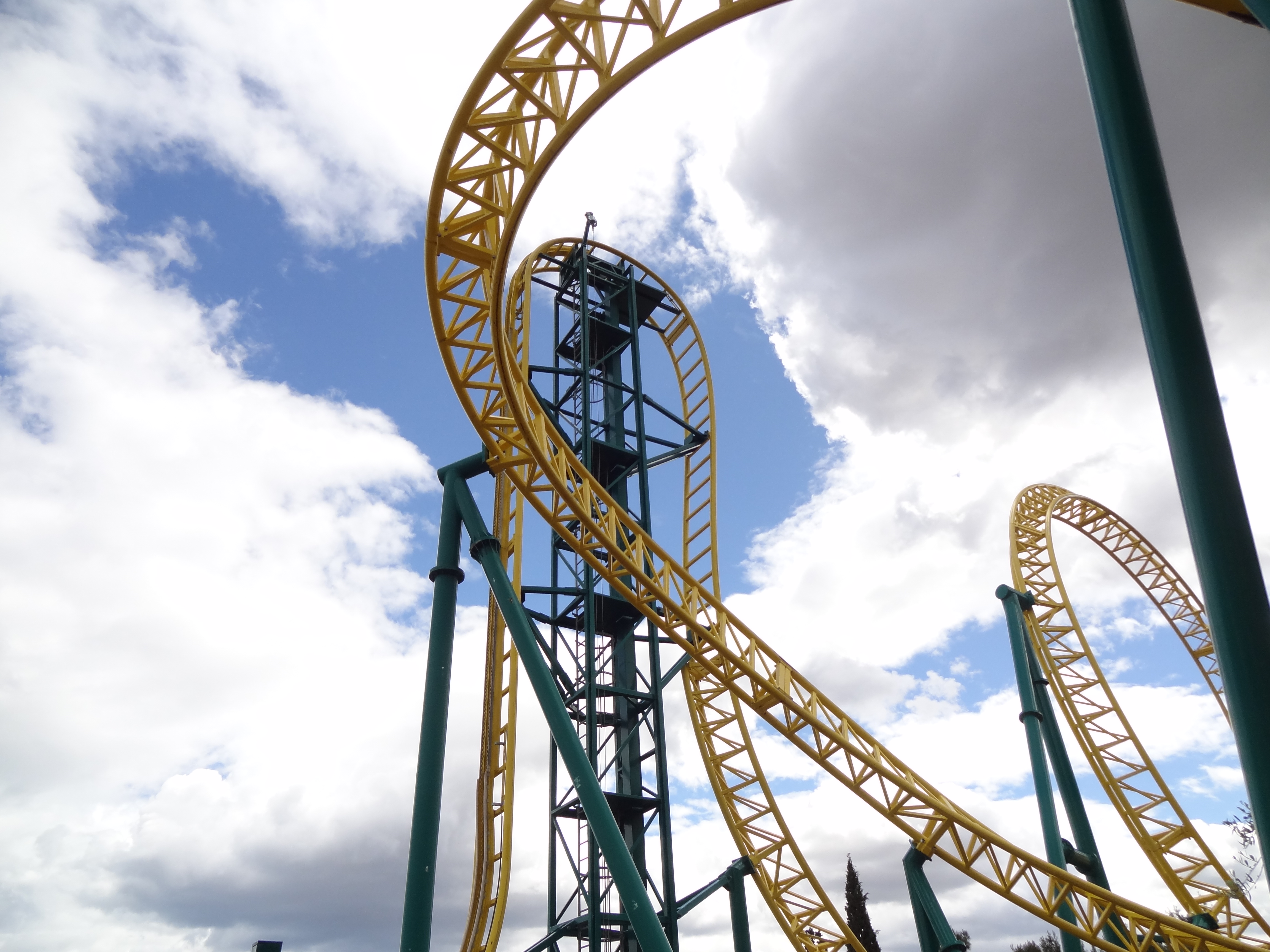 View of Eurofighter roller coaster at Zoosafari Fasanolandia